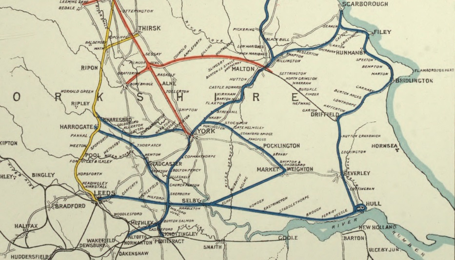 A crop of the Plan of the YN&BR, Y&MNR and LNR from Tomlinson.